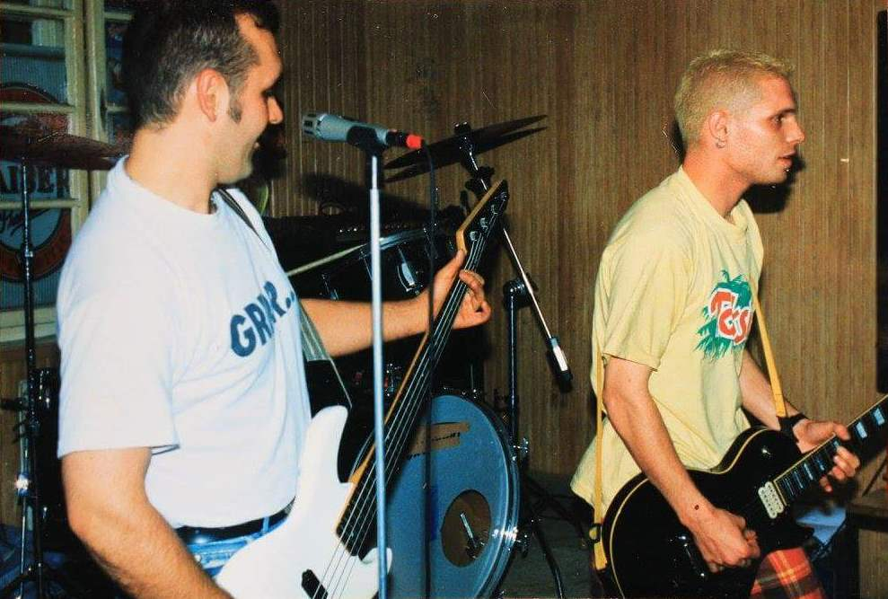 CAFB_1998_KONCERT